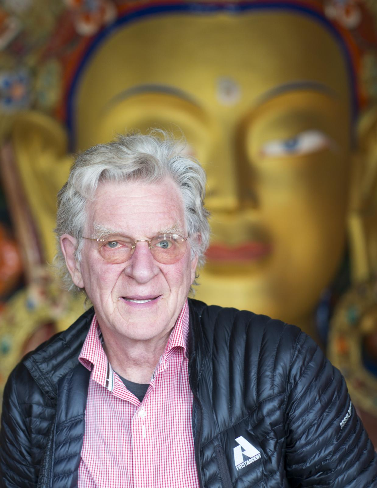 Bob Thurman